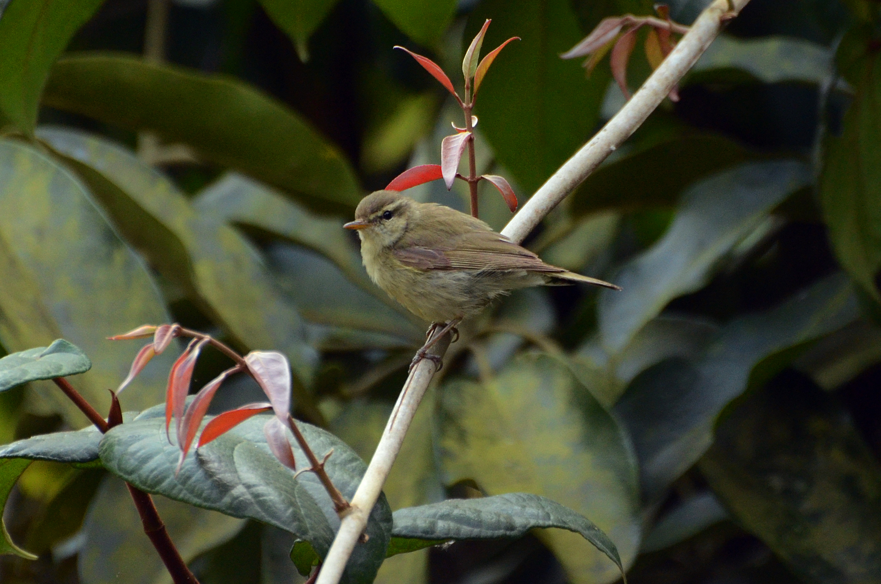 Greenish Warbler Phylloscopus trochiloides (இலைக் கதிர்குருவி) from Anamalai Hills, Southern Western Ghats, India